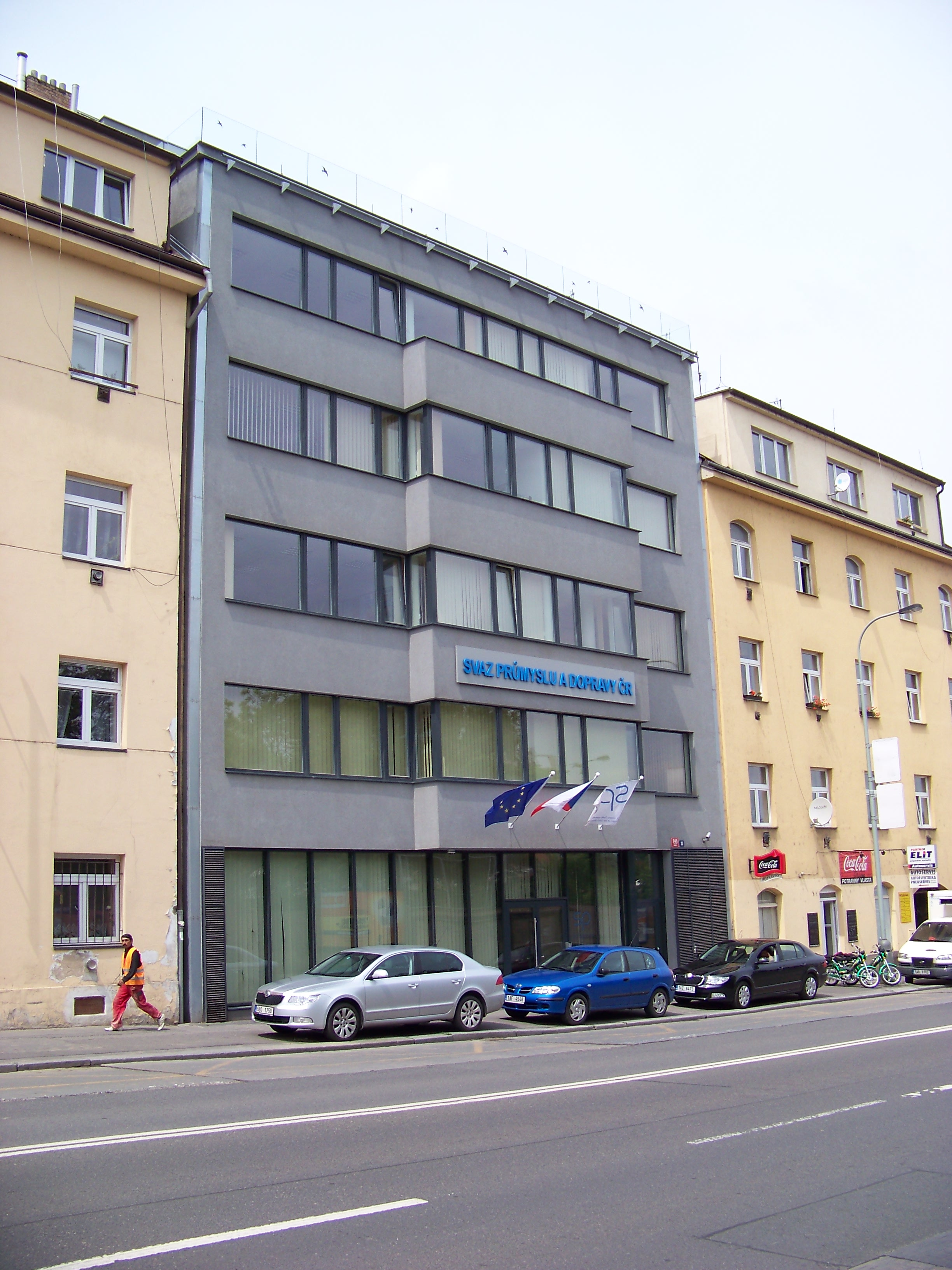 Prague-Vysočany, the Czech Republic. Freyova 948/11, Industry and Transportation Union of the Czech Republic.